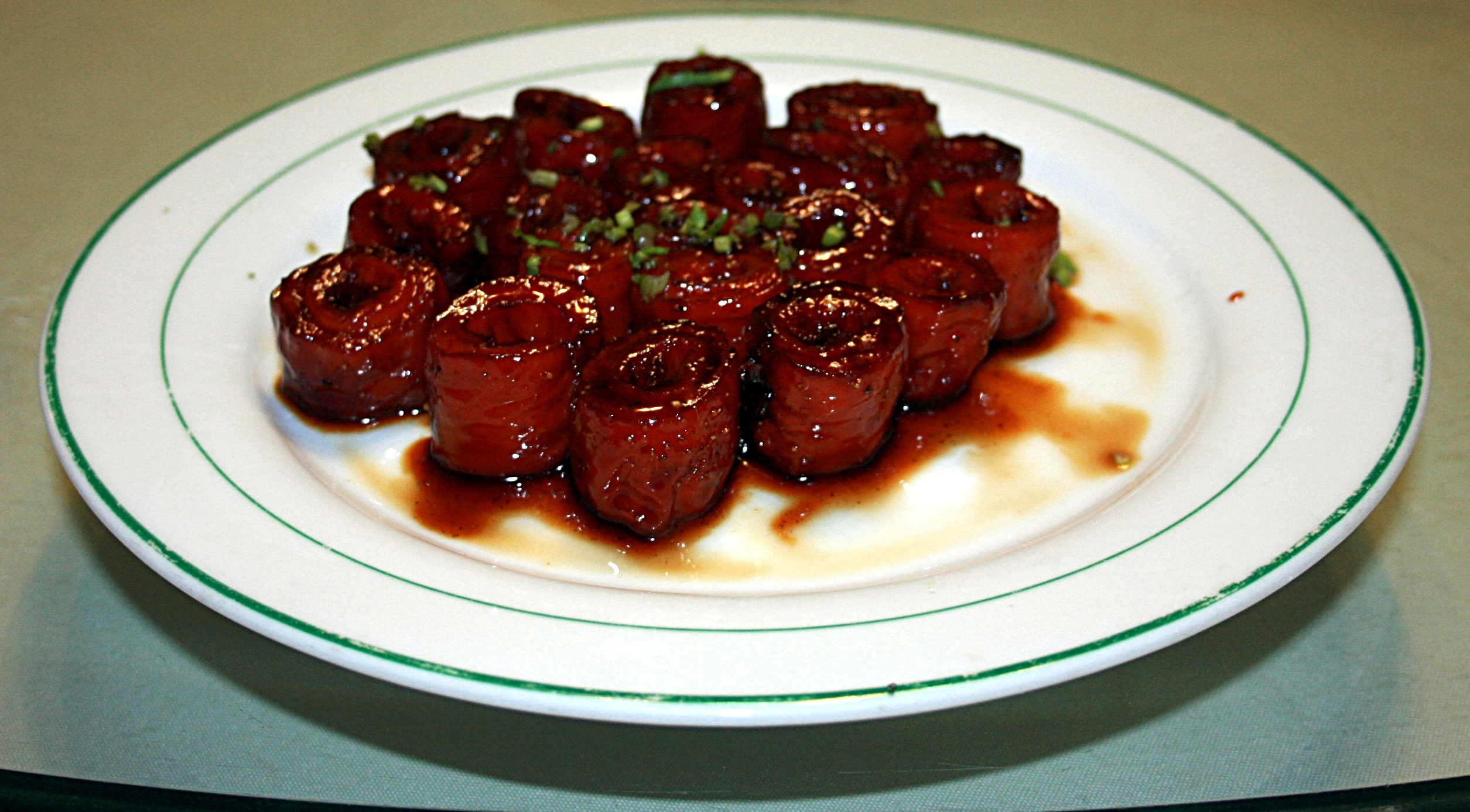 Photograph of the Jiuqu Dachang (九曲大肠, literally: "9-coil big guts") dish served in Jinan, Shandong Province, China.